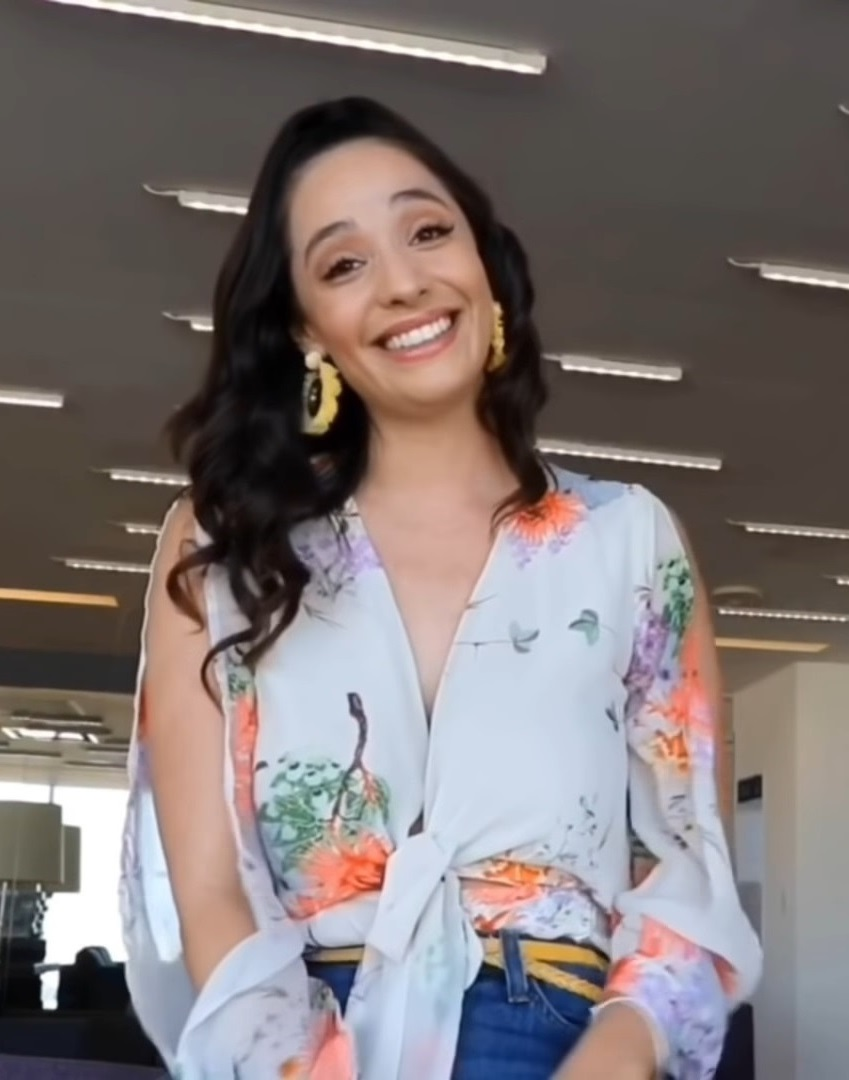 Eloísa Gutiérrez Rendón is a Bolivian beauty pageant titleholder who was crowned Miss Earth Bolivia 2014.